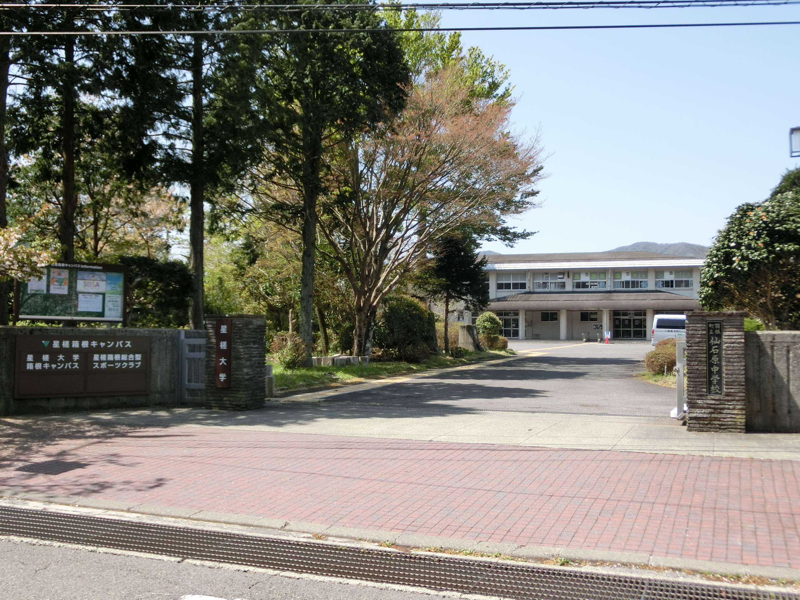 Seisa University Hakone Campus